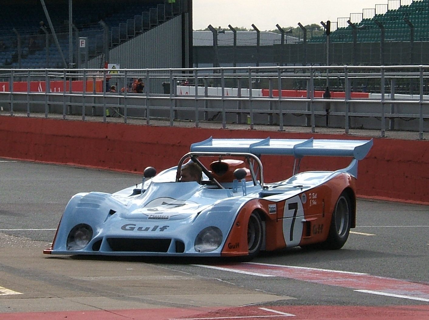 Gulf Mirage GR7 sports prototype racing car (1974). At the Silverstone Historic race meeting, July 2007.